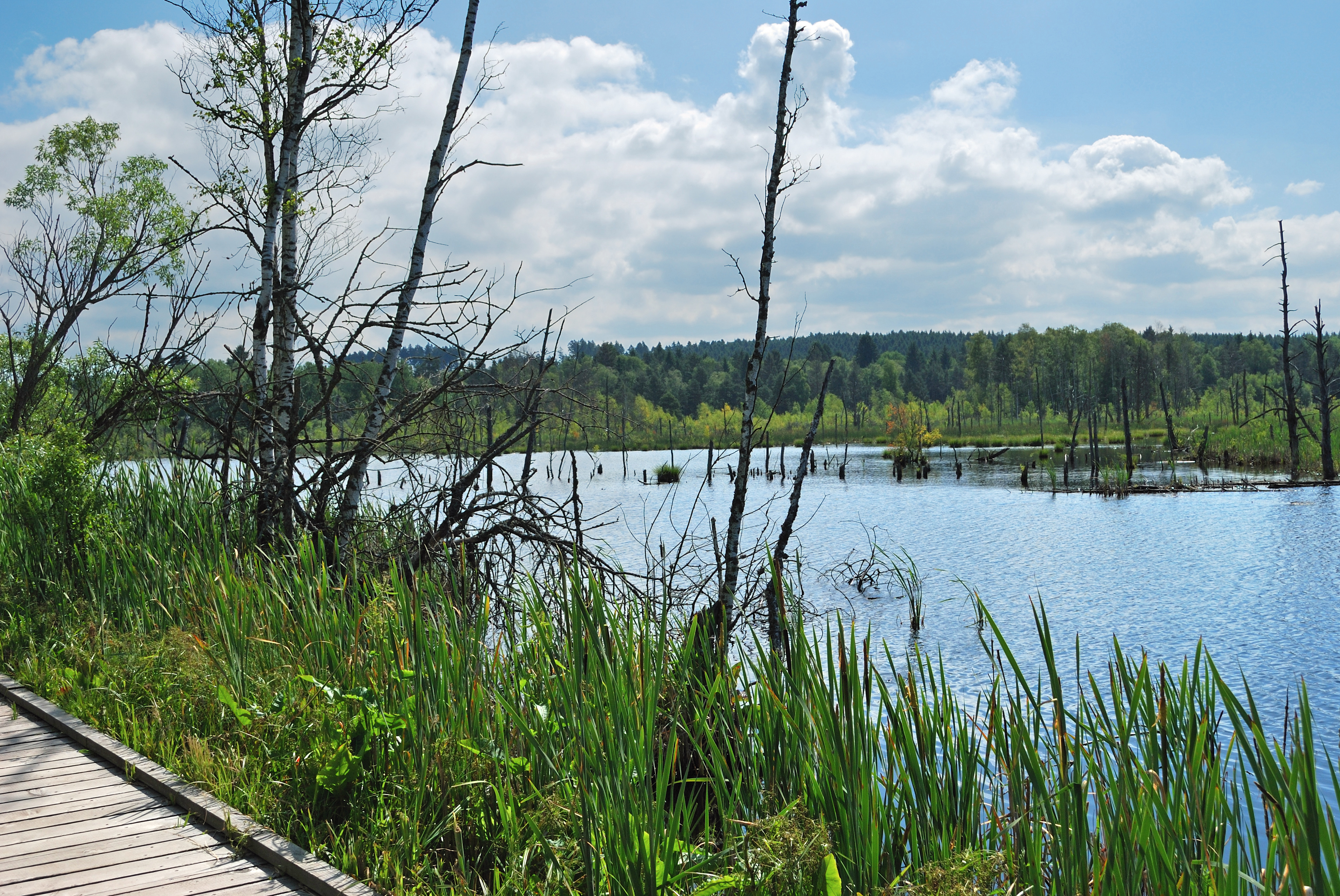 Schwenninger Moos near Schwenningen, federal state Baden-Württemberg in Southern Germany. Here is the source of the river Neckar.